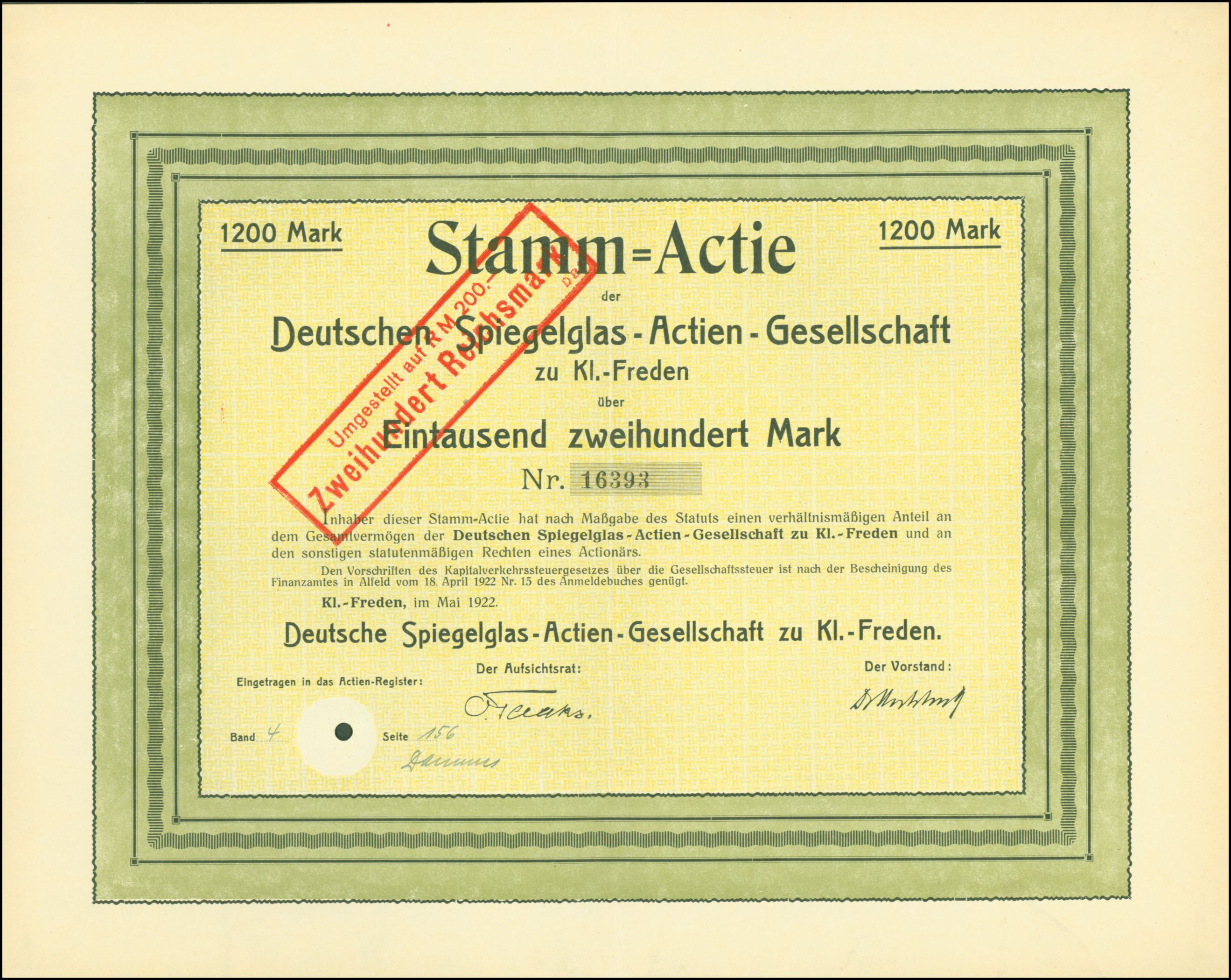 Share of the Deutsche Spiegelglas-AG, issued May 1922